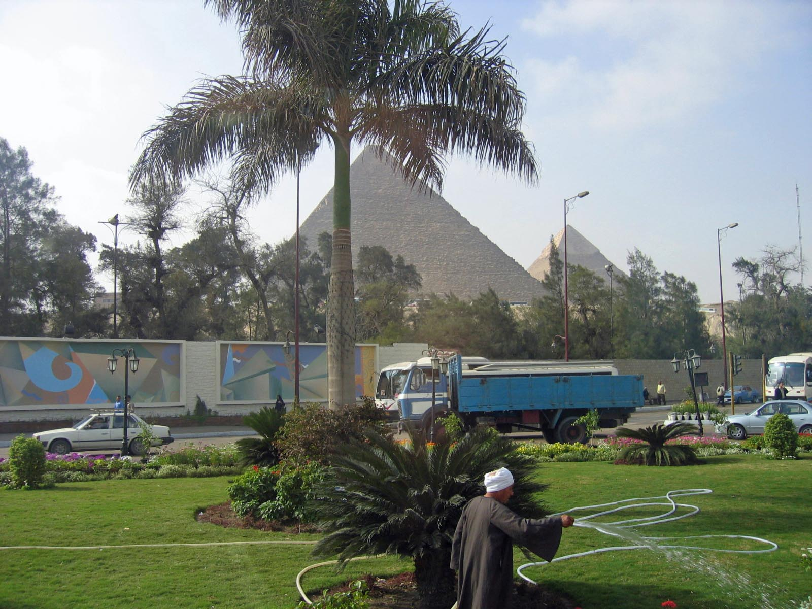 Giza or Gizah (Arabic: الجيزة, transliterated el-Gīzah) is a city in Egypt